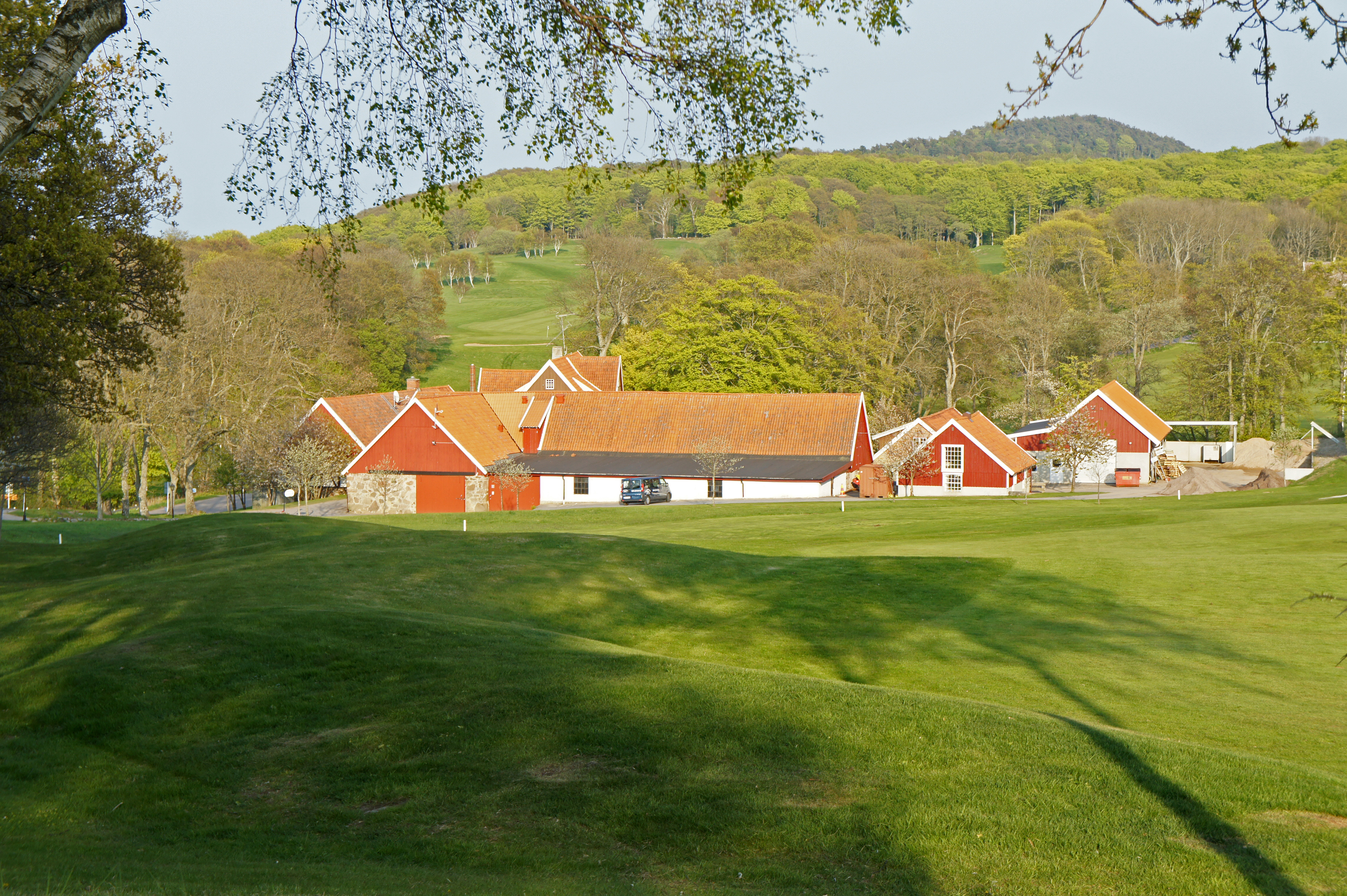 The hotel and golf-course at Kullagården, Mölle, Sweden